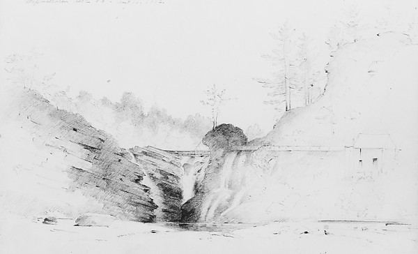 Drawing of Big Wapwallopen Creek by the American landscape artist Thomas Addison Richards.